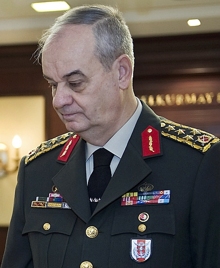 İlker Başbuğ in Ankara, Turkey, Feb. 6, 2010.